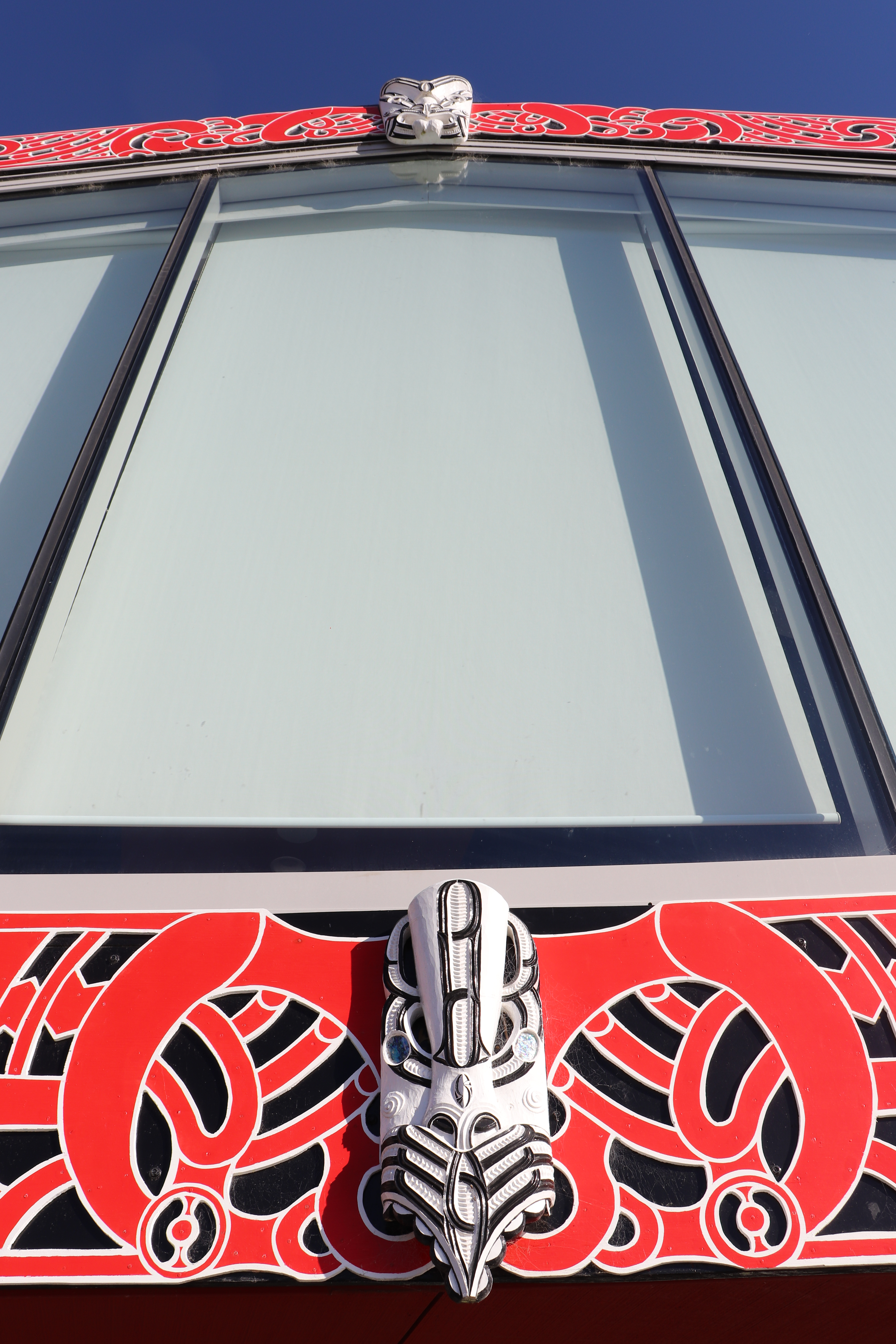 The front of Te Awahou Nieuwe Stroom